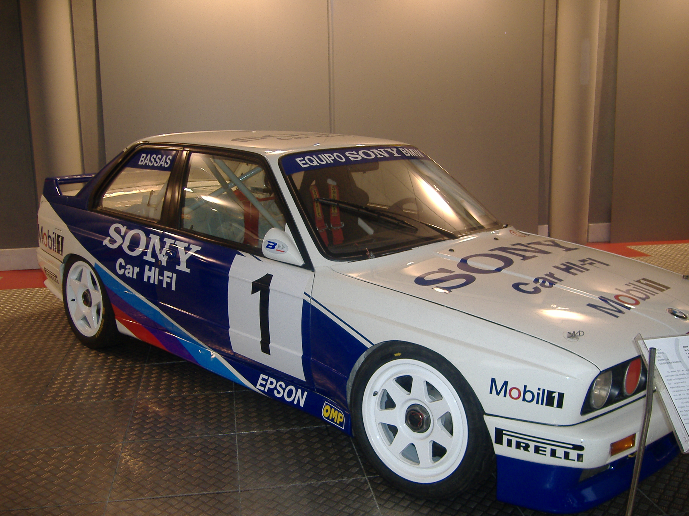 BMW of Pep Bassas, spanish rallye driver.